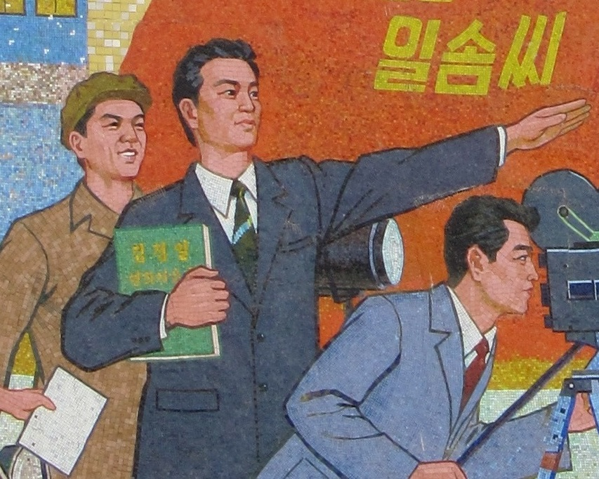 Detail of a mural at the Pyongyang Art Studios in Pyongyang, North Korea, cropped.